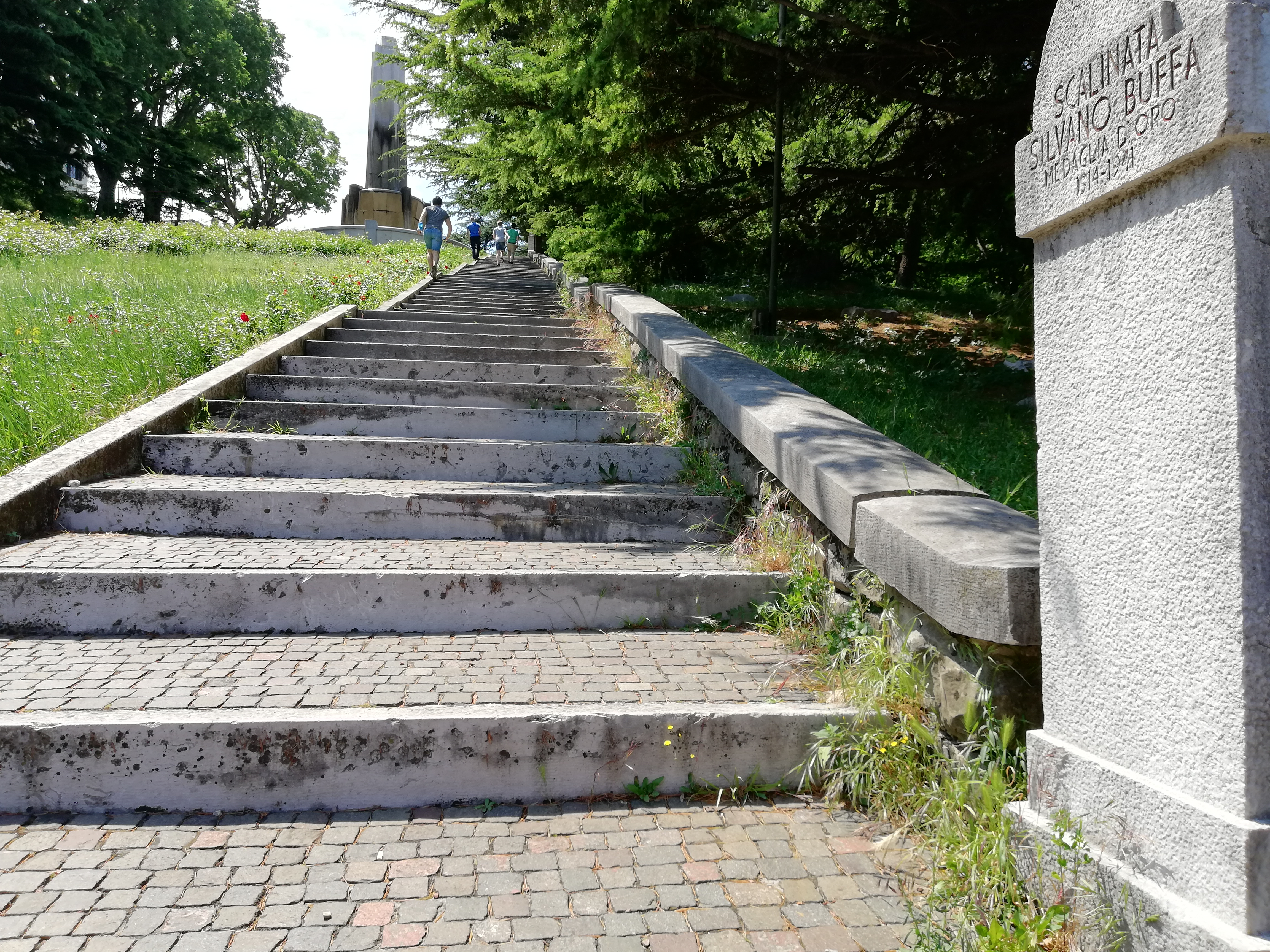 Stairway Silvano Buffa in Trieste, Italy - Scalinata Silvano Buffa a Trieste